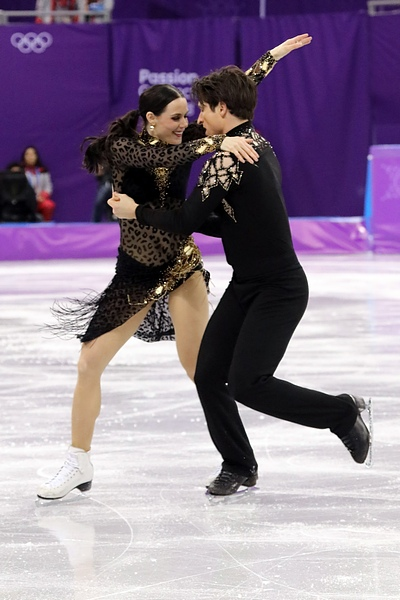 Tessa Virtue and Scott Moir at the 2018 Winter Olympic Games in PyeongChang